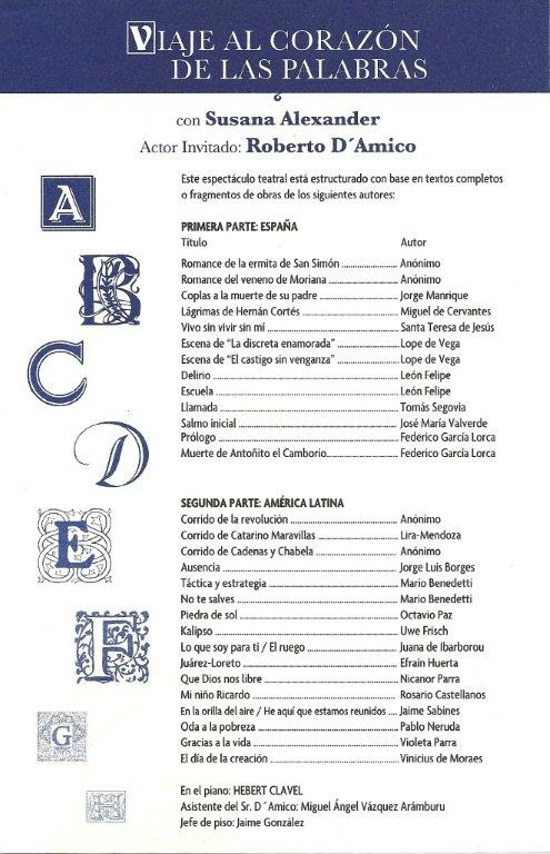 Informes